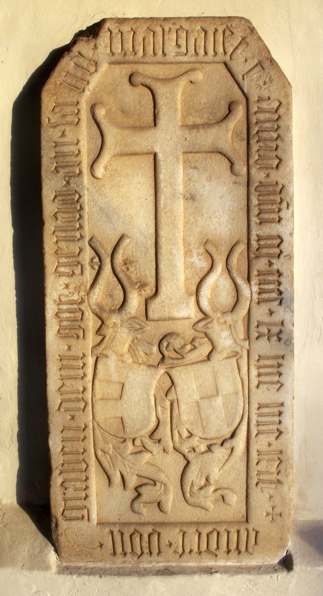 Grave stone of Andreas von Graben zu Sommeregg showing the coat of arms of Von Graben (left) and Von Hallegg (right) in the lobby for Catholic Church of St. Leonhard in the village Treffling near lake Millstatt (Millstätter See) / Spittal an der Drau / Carinthia / Austria / Central Europe.